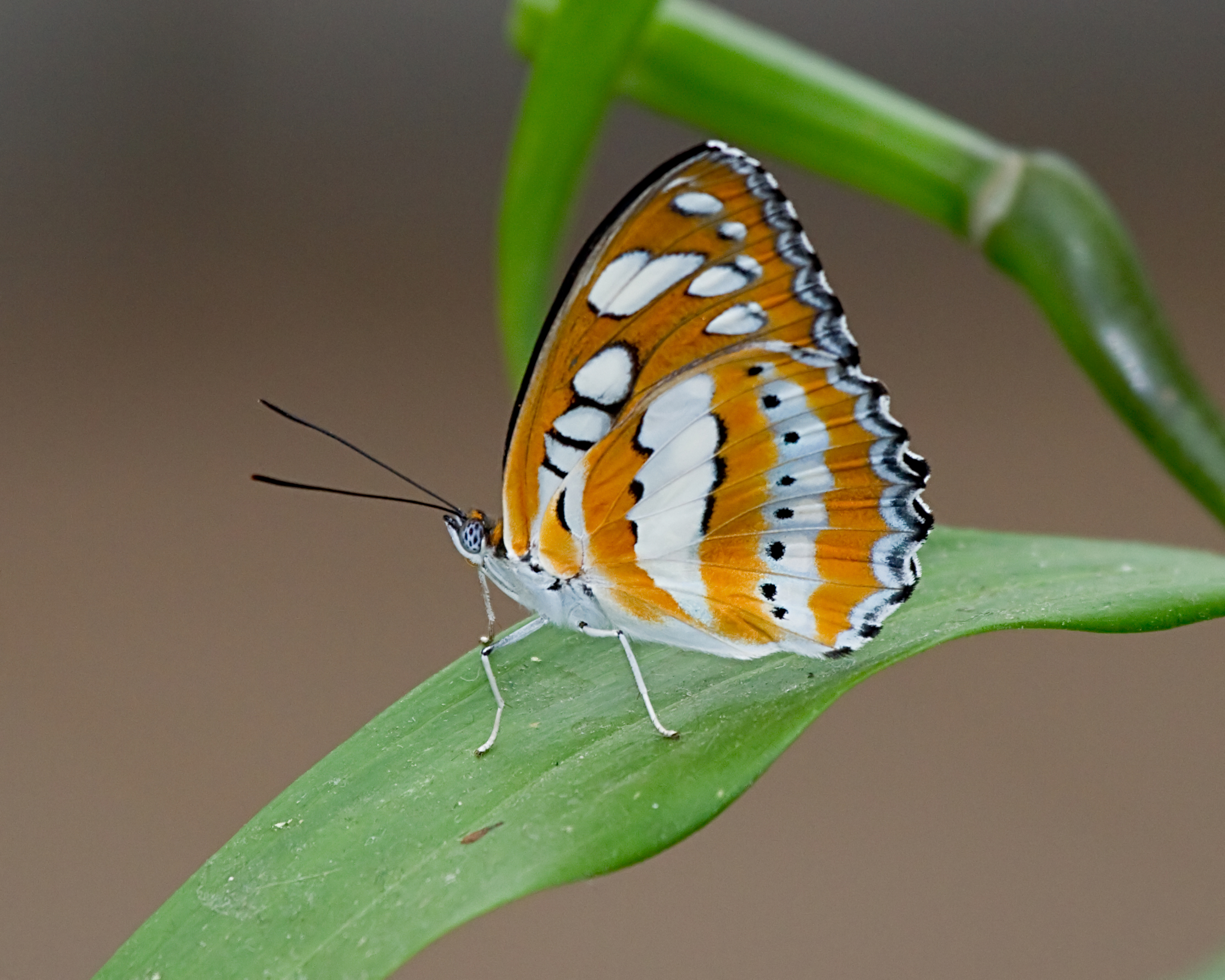 Common sergent - taken at Krohn Conservatory butterfly show.